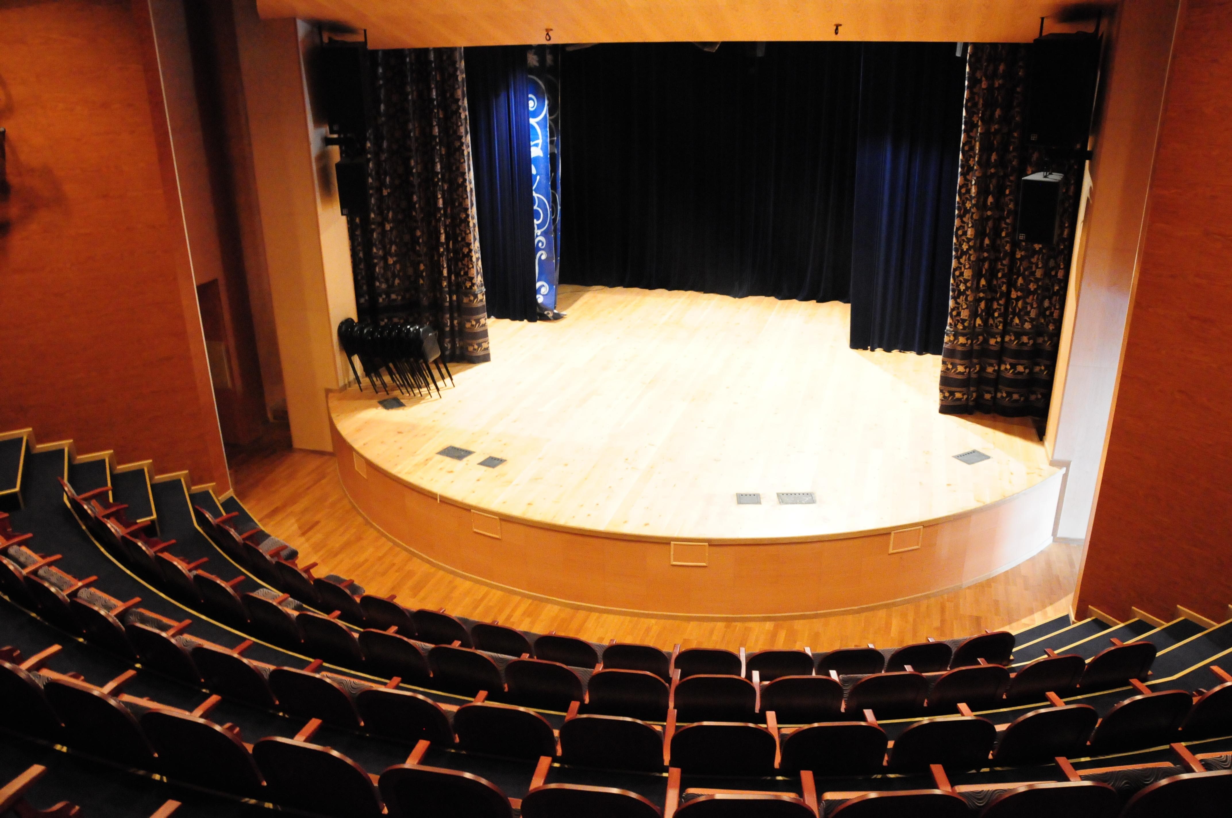 Small Hall